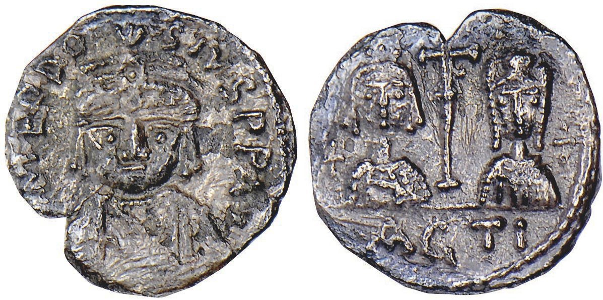 Theodosius, son of Maurice Tiberius (590-602). 1/2 Siliqua. Carthage, 590-592. [D]NTHЄODO SIVSPPAV (AV ligatured). Bust facing, wearing cuirass and crown with trefoil ornament above circle. Rv. Facing busts of Maurice Tiberius, wearing diadem, trefoil and pendilia, and Constantina, wearing crown with pendilia, long cross on globe between them; to r.,+; in exergue, AGTI.